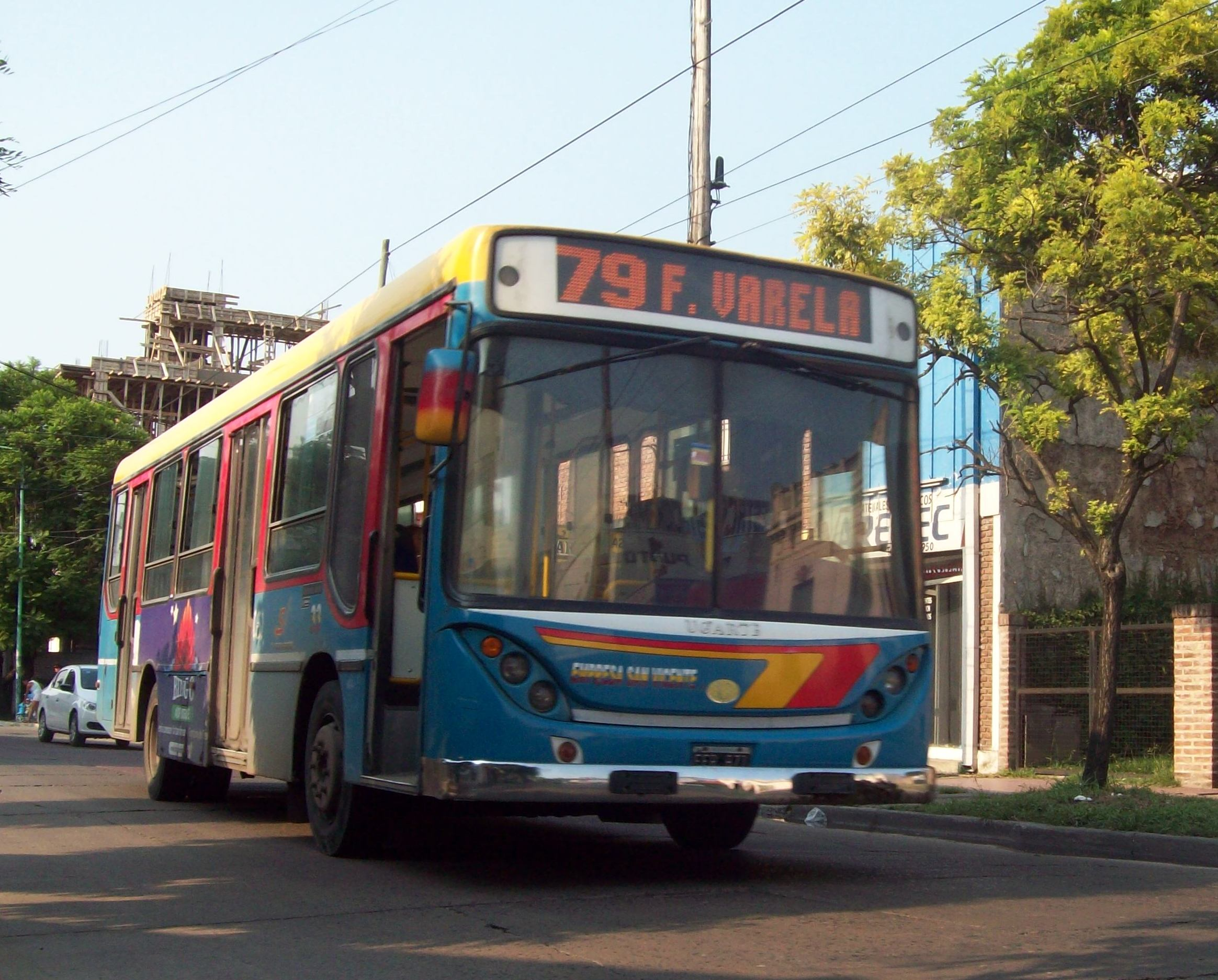 Ugarte Mini Europeo bus (#11) with unknown chassis in Florencio Varela, Buenos Aires Province, Argentina. Colectivo, line 79, Empresa San Vicente S.A.T. operator.